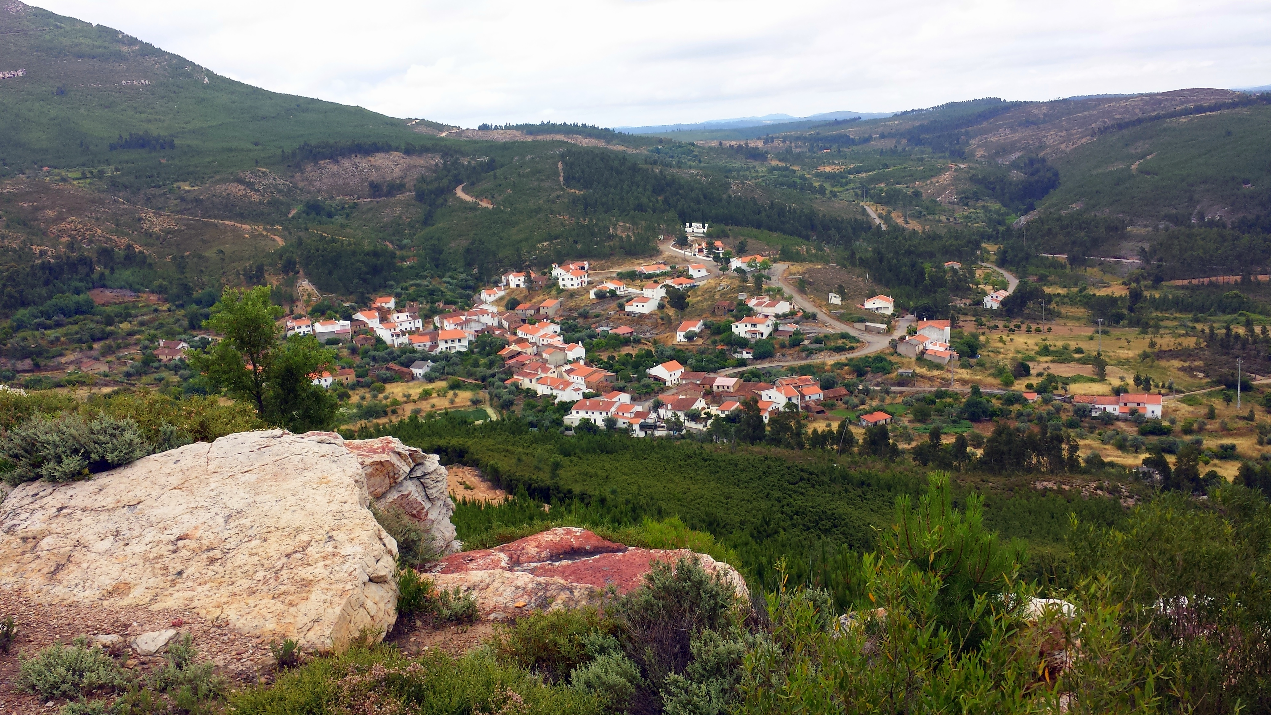 Village of Santos, Mação, Santarém, Portugal.